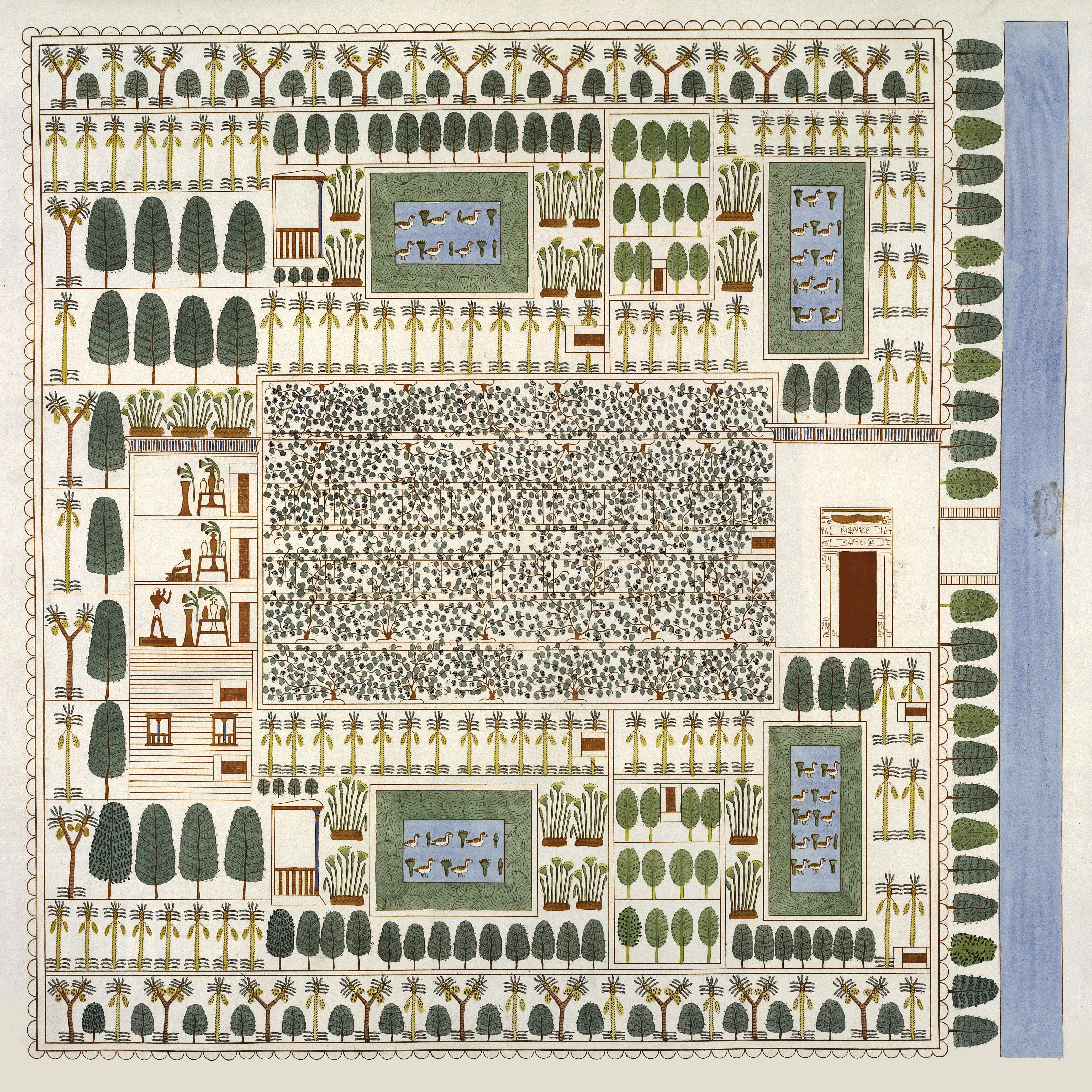 Sennefer garden